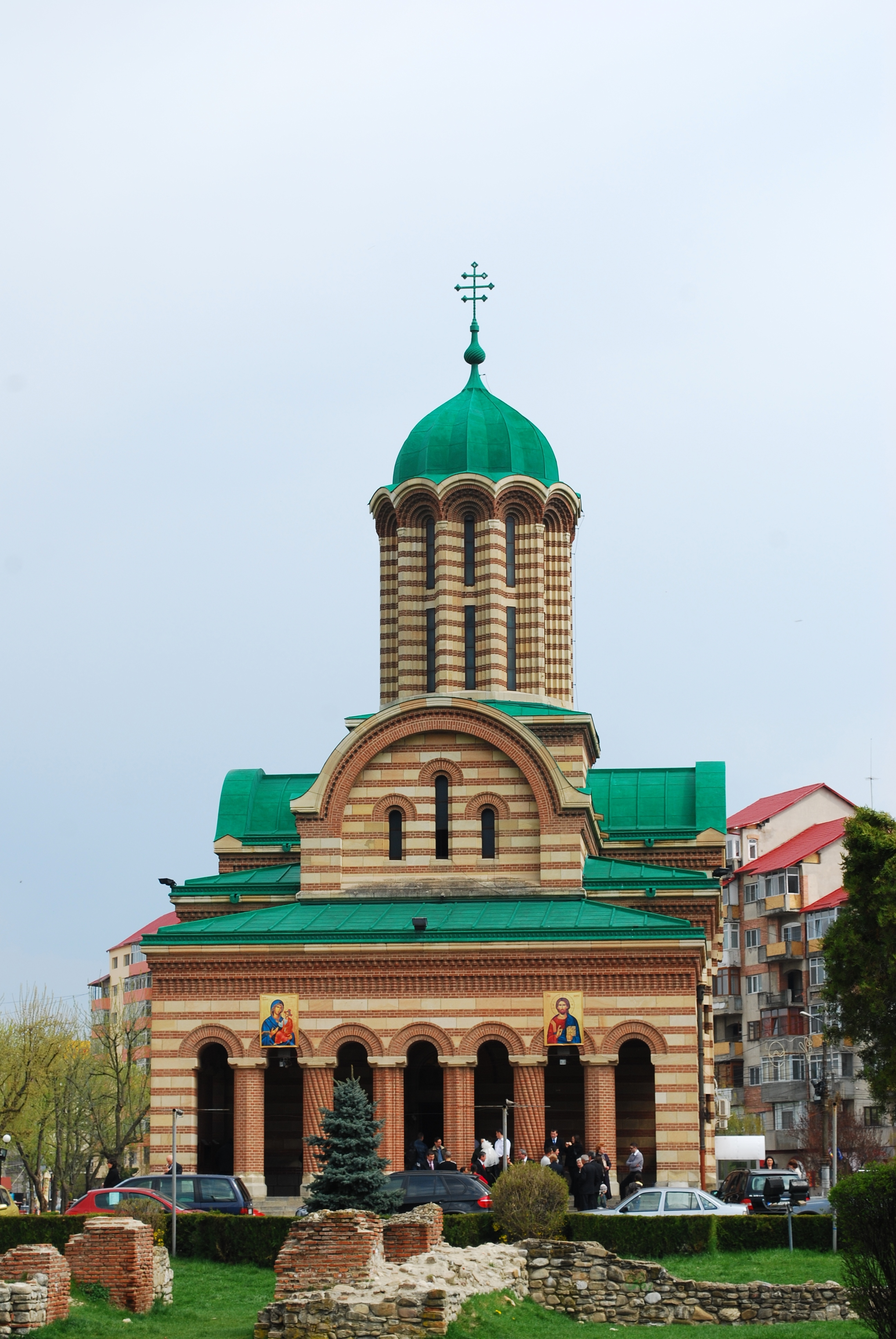 The metropolitan church in Târgovişte, Romania